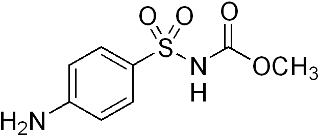 chemical structure of asulam (asulox)